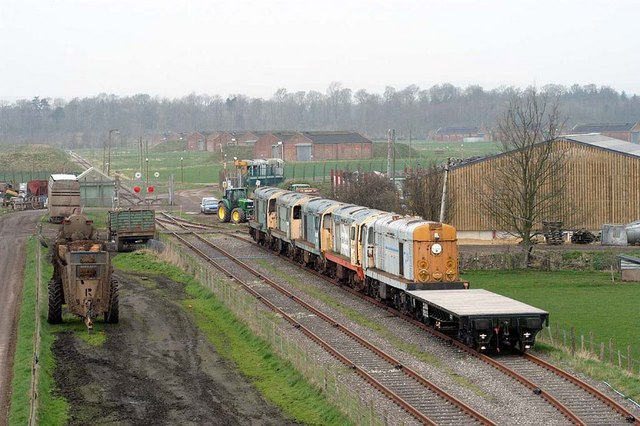 Smalmstown MOD Depot A line up of withdrawn locomotives stored at the Smalmstown MOD Depot